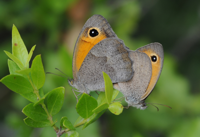 Wing underside view of a couple of "Turkish meadow brown" (Maniola telmessia). Adana, Turkey. 140 m.